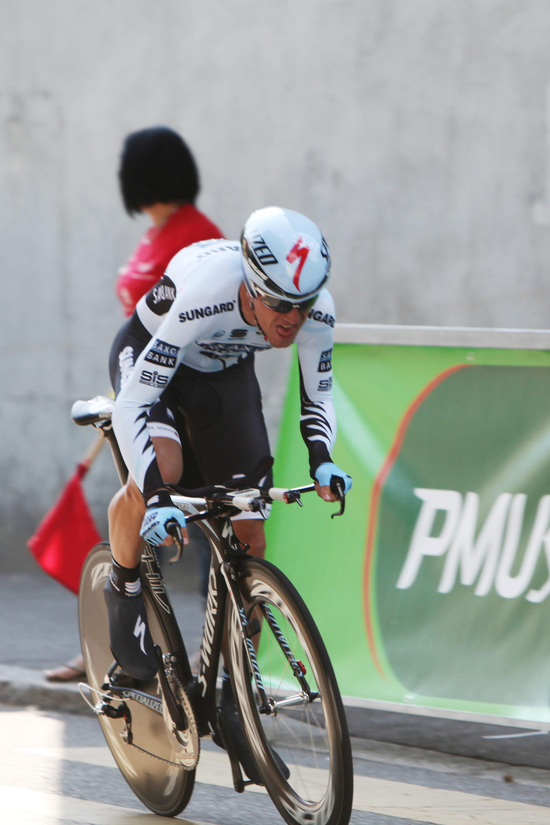 Chris Anker Sorensen at the prologue of the Tour de Romandie 2011